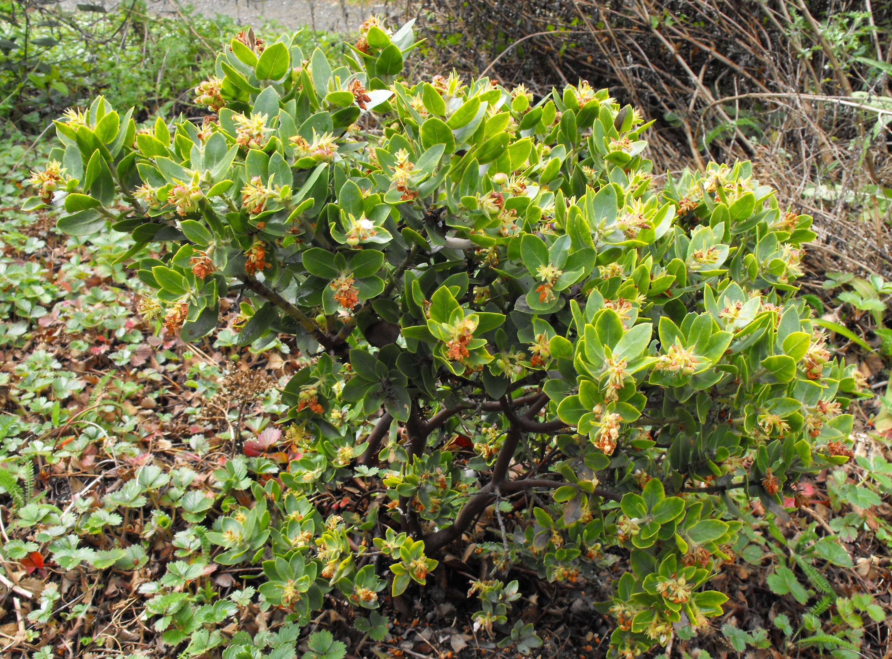 Arctostaphylos montaraensis — Montara manzanita. Endemic to California, where it is only known from a few occurrences on San Bruno Mountain and on Montara Mountain, in San Mateo County, western San Francisco Bay Area. Found in Coastal sage and chaparral habitats. Specimen identified by sign at the University of California Botanical Garden, Berkeley, Berkeley Hills.